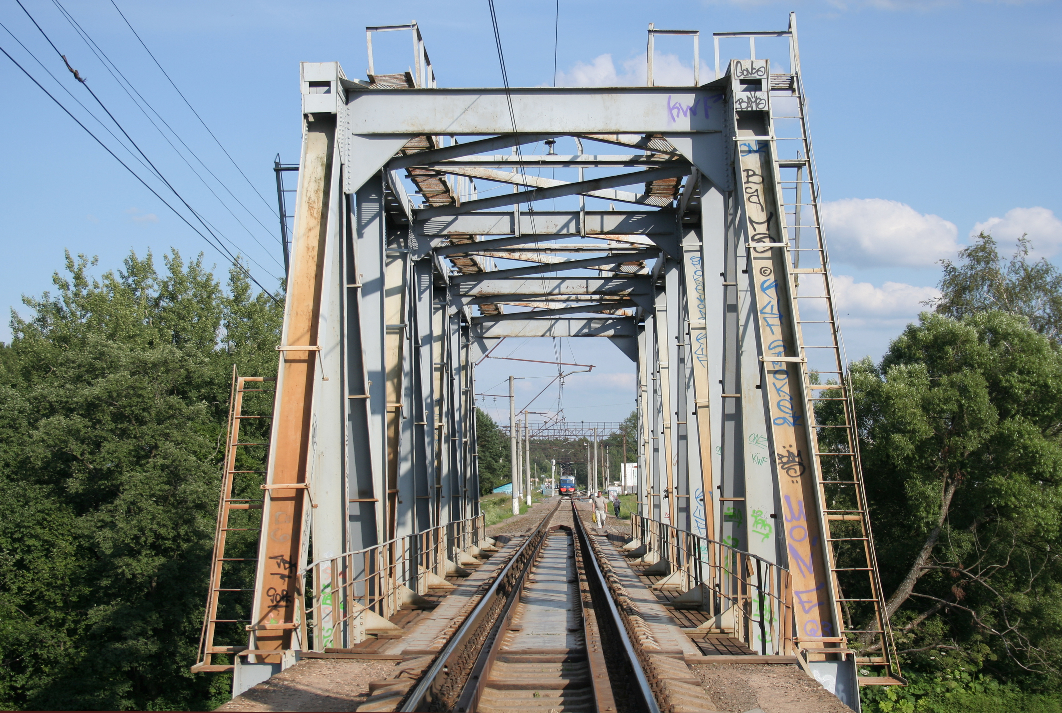 One-track railway bridge in Krasnoarmeysk, Moscow Oblast, Russia